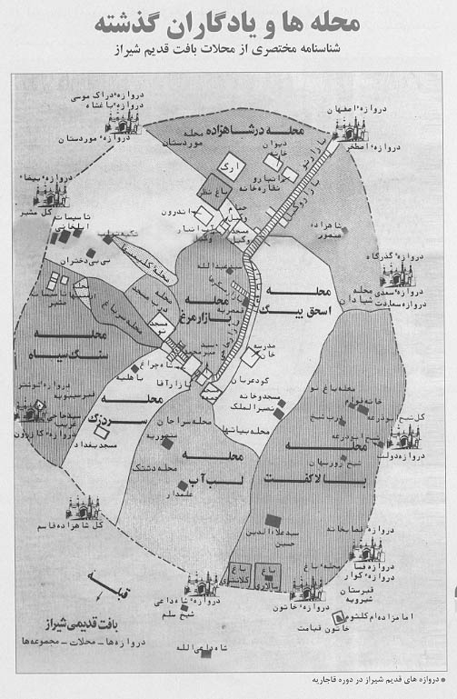 An old map of Shiraz